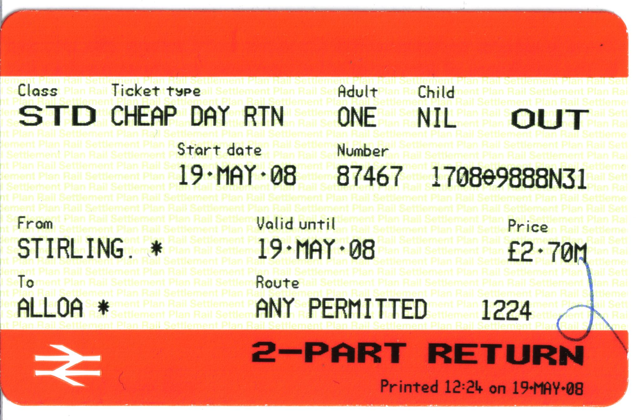 Railway ticket to Alloa on day of opening.